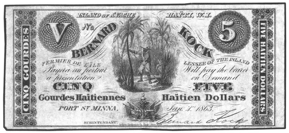 Banknote of 5 Haitian dollars, created by entrepreneur Bernard Kock after he got a rent contract for the Haitian island Île a Vache to grow cotton, using freed slaves from the United States.